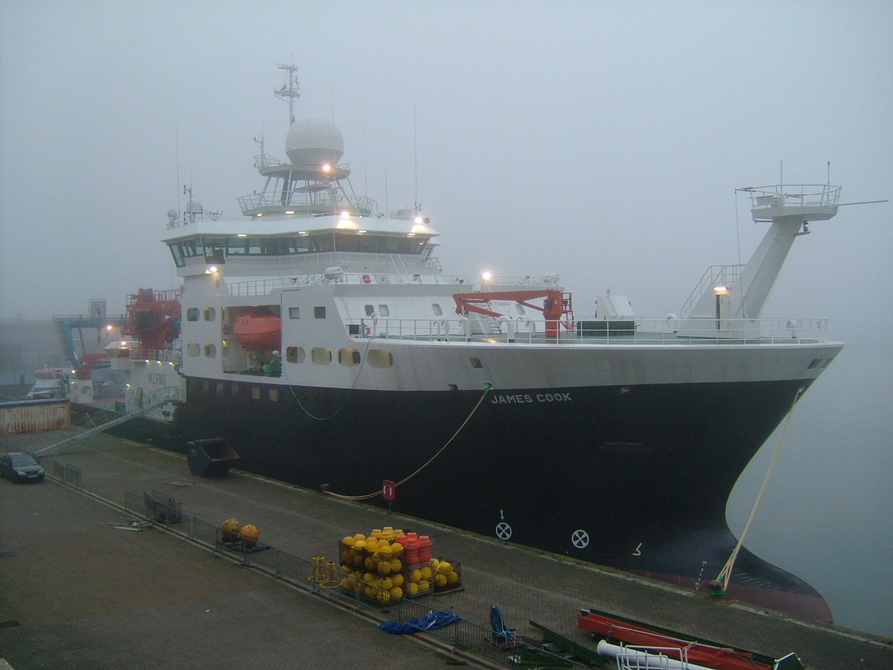 The RRS James Cook in dock at the National Oceanography Centre, Southampton.